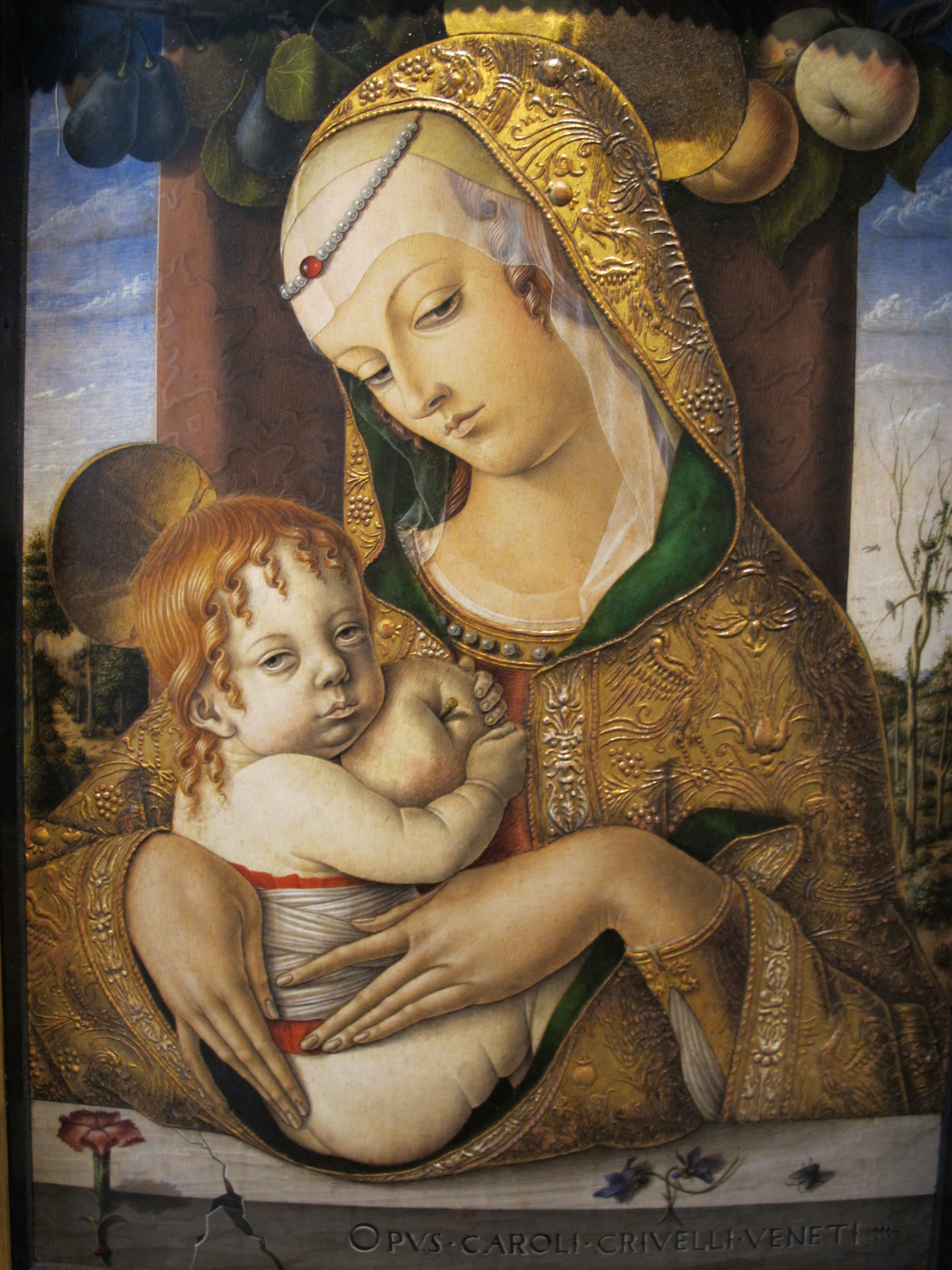 This is a small devotional image. Reminding Mantegna's paintings there are peaches and figs above Mary. Their Christian symbolical meanings relate to the story of Christ: Redemption (peach) and Fertility (fig). On the parapet are the pink or carnation, symbol of the Passion of Christ while violets are Marian flowers enhancing the Virgin's humility and purity. The fly on the parapet far right, represents evil, justifying the sacrifice of Christ.